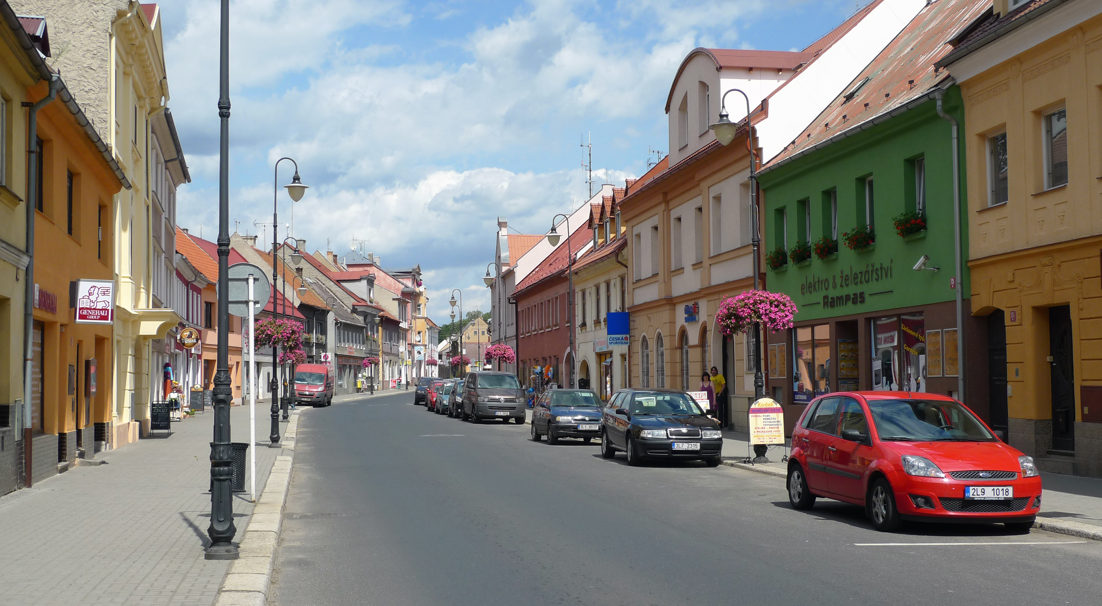 Mimoň in the Czech Republic, Mírová Street